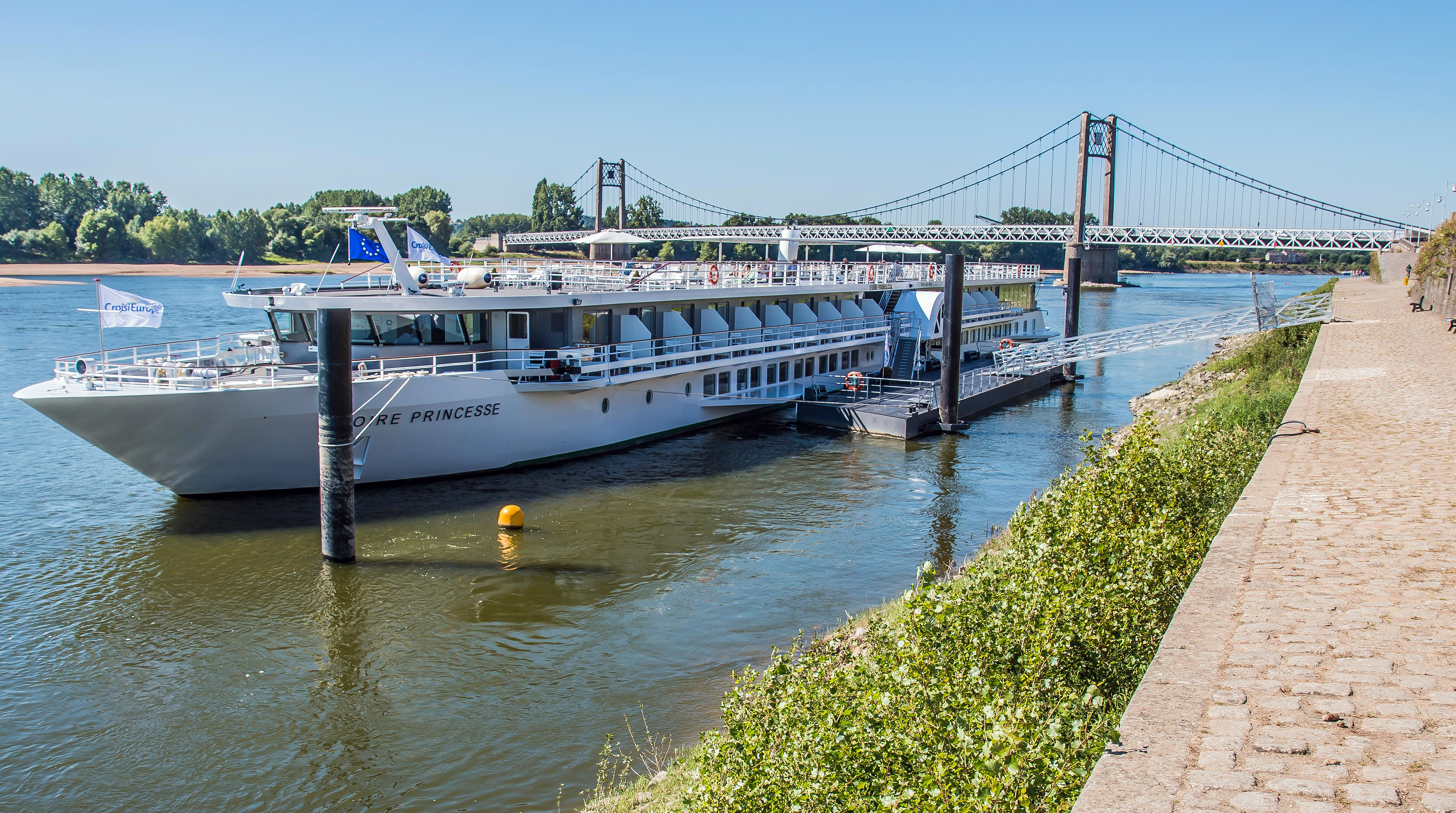 River cruise ship Loire Princesse